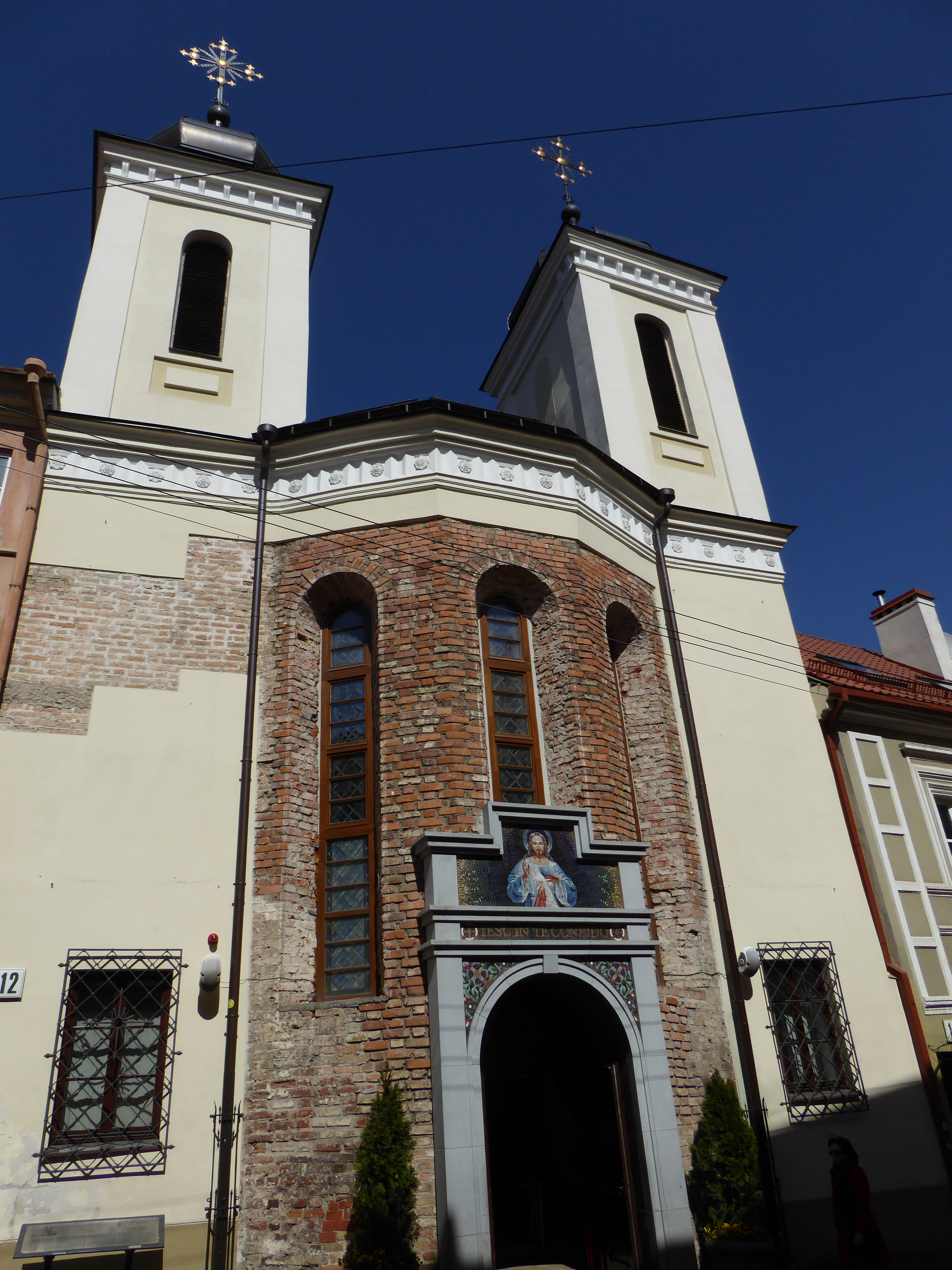 Divine Mercy Sanctuary, Dominikonų Street, Vilnius, Lithuania, April 2015